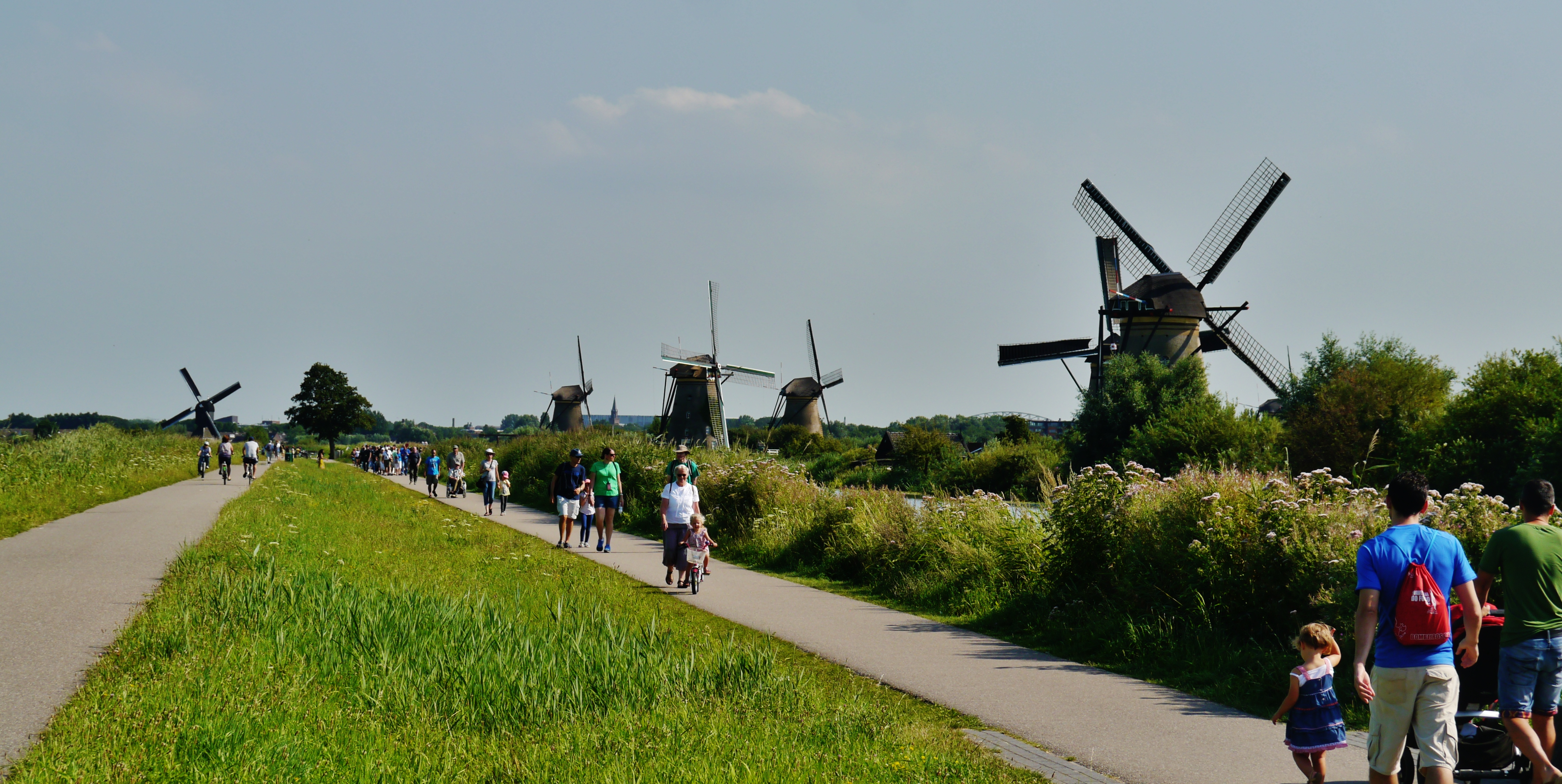 Wind Mills of Kinderdijk, Province of South Holland, Netherlands